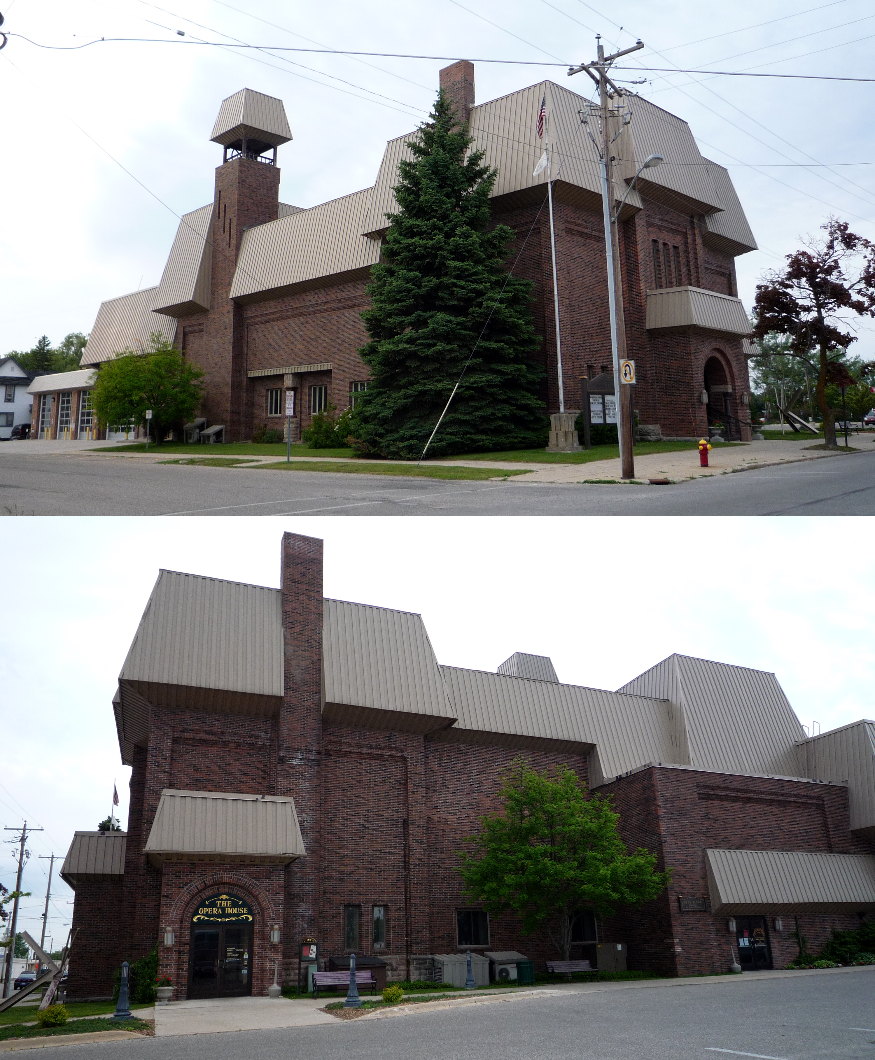 Opposite views of the Cheboygan Opera House, built on the site of previous theaters dating back to the 1800s, now contains the town's city hall, police headquarters, and fire station, as well as the theater, Cheboygan, Michigan, USA.